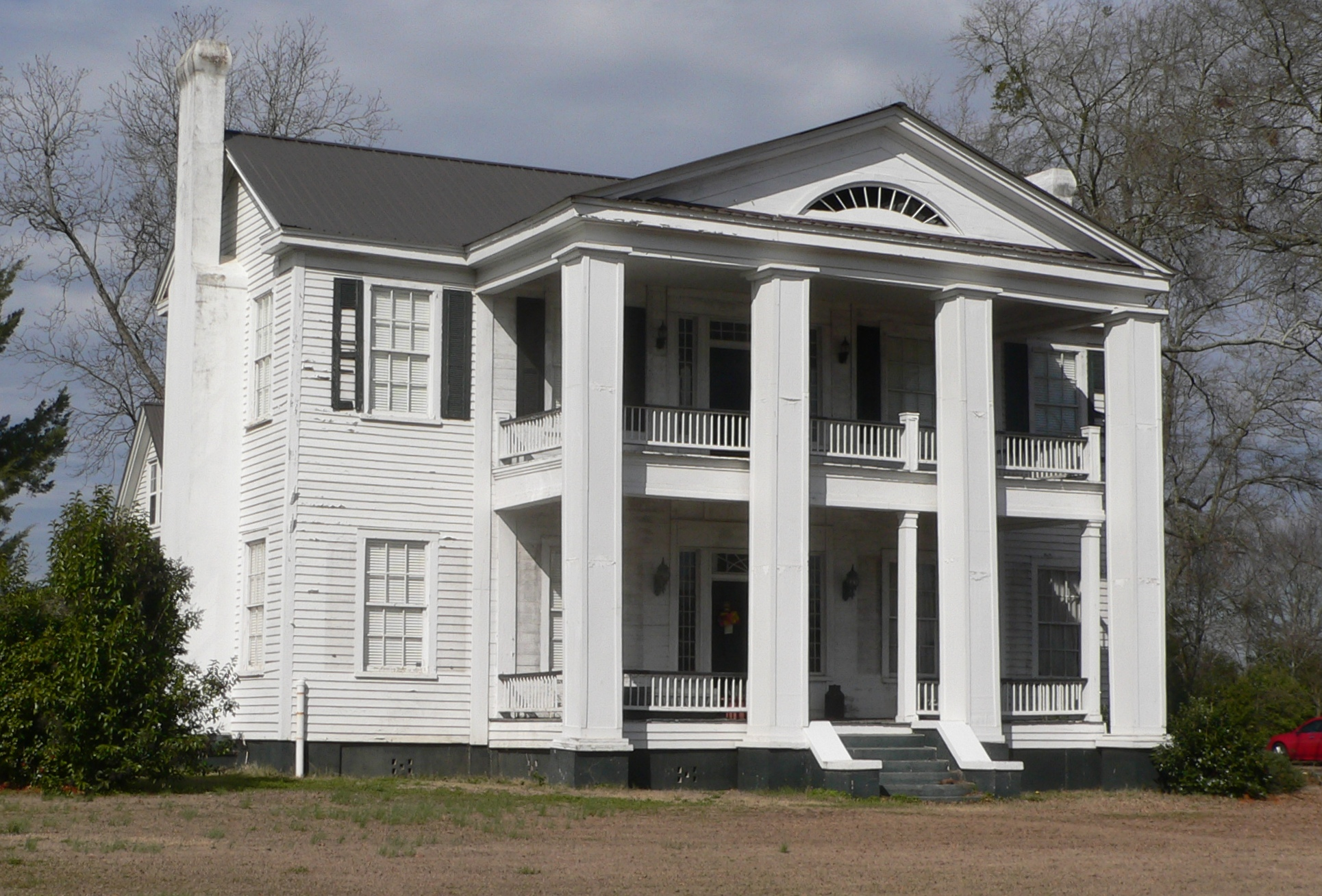 Spencer house, located at 817 N. Main Street in Bishopville, South Carolina.